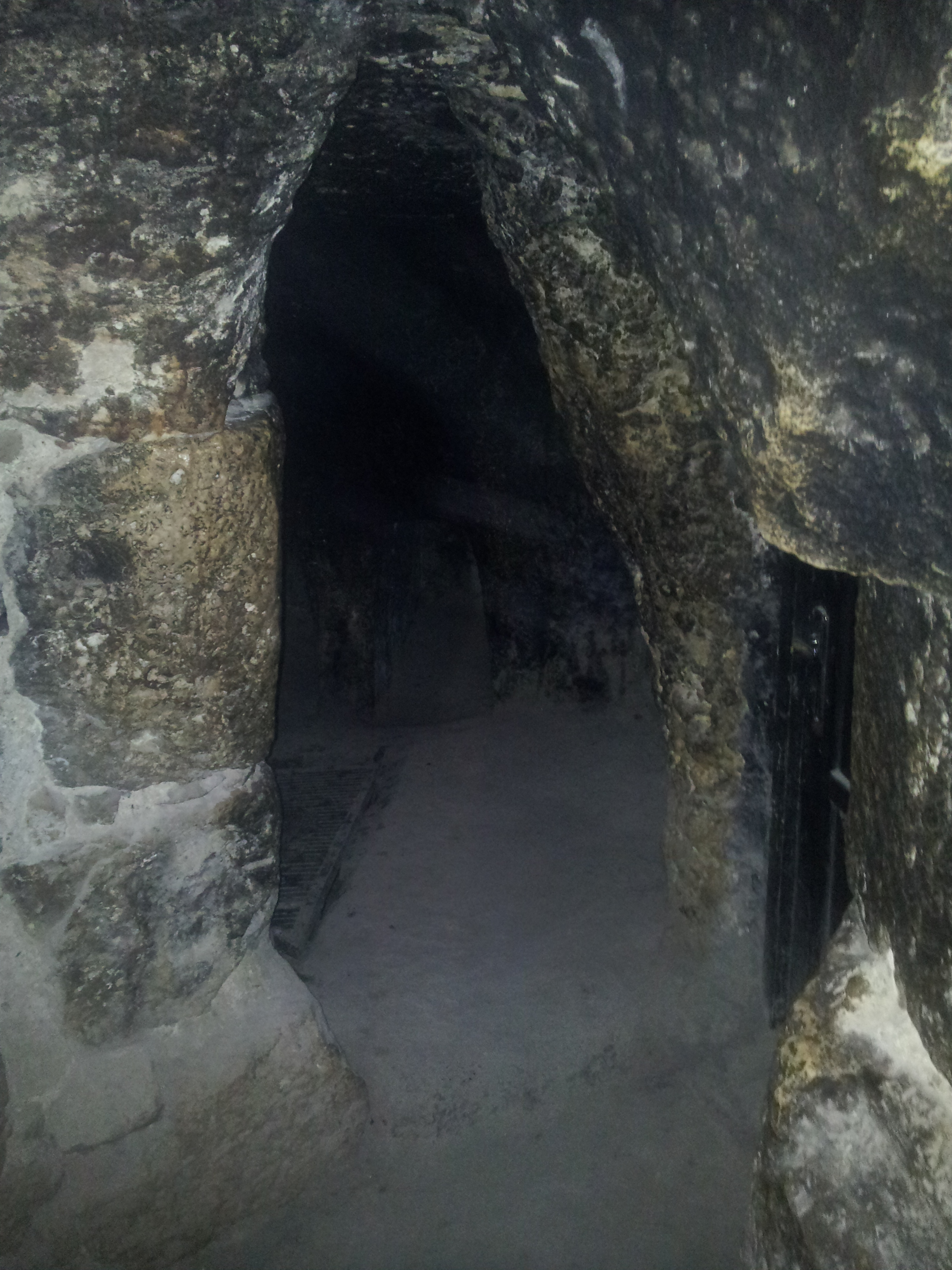 Tomb of Joseph of Arimathea